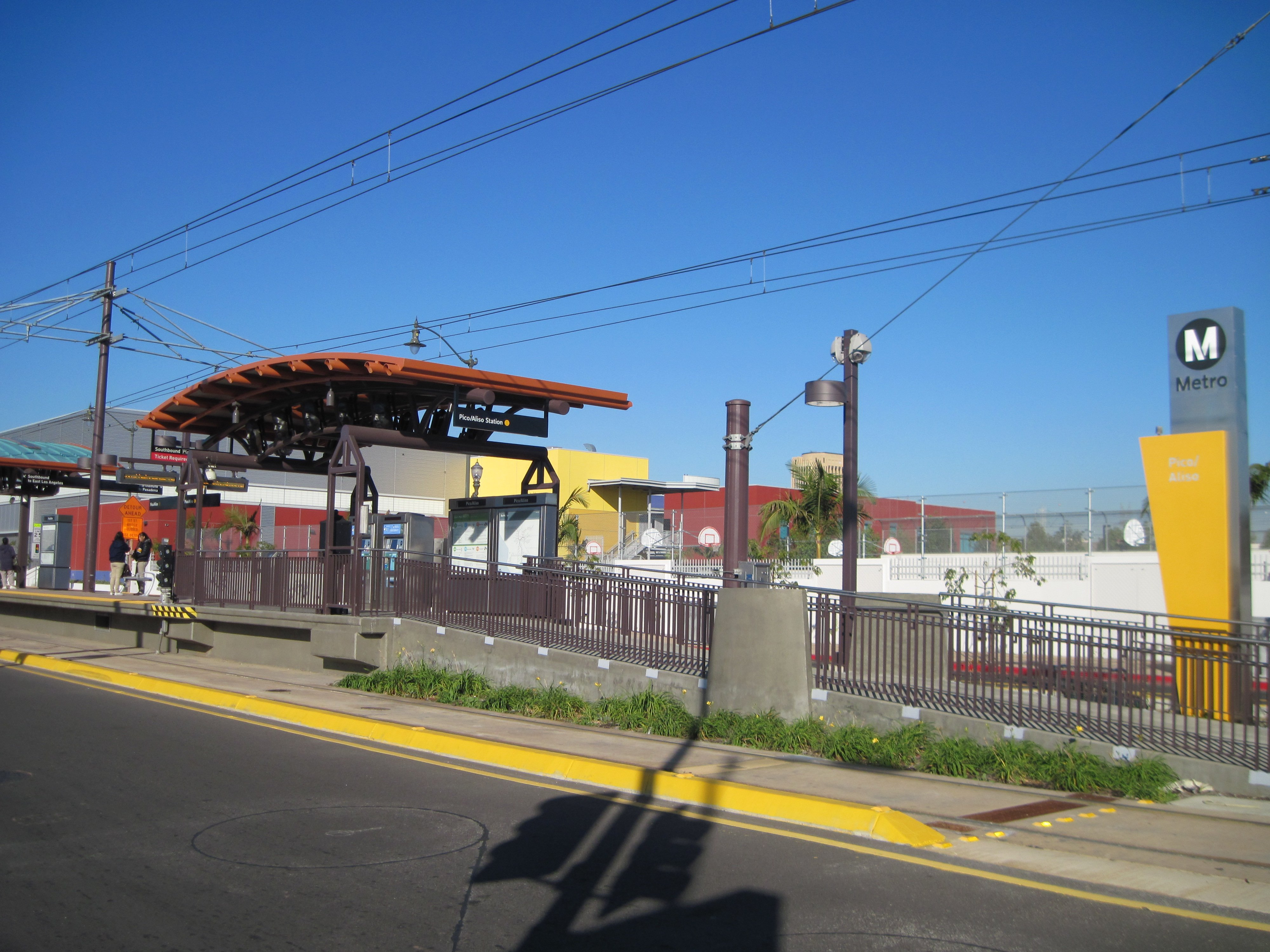 The Los Angeles County Metropolitan Transportation Authority's Pico/Aliso station, serving the Metro Gold Line in Los Angeles, California, USA.